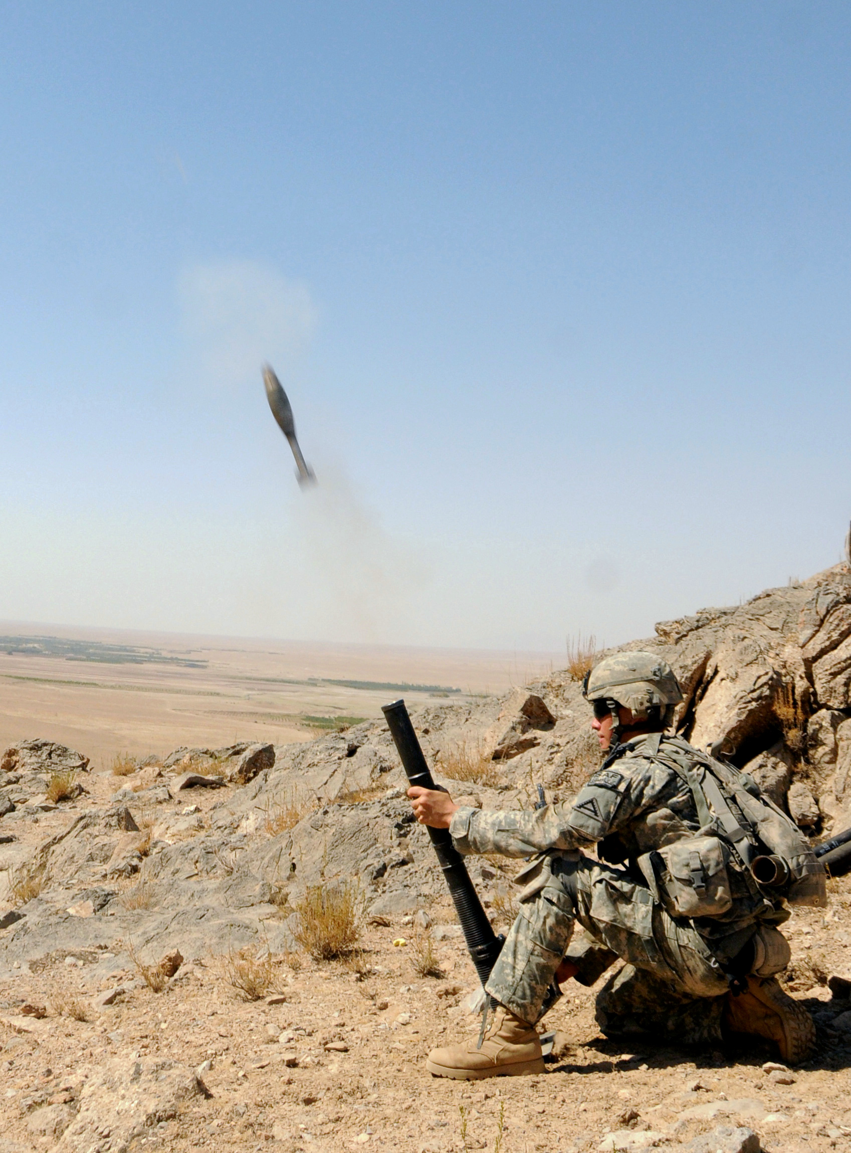 A U.S. Army soldier with Charlie Company, 1st Battalion, 4th Infantry Regiment fires a mortar round during an area reconnaissance mission off Highway 1 in Zabul province, Afghanistan.